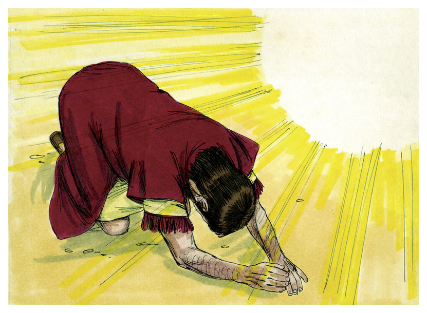 Biblical illustration of Book of Genesis Chapter 15